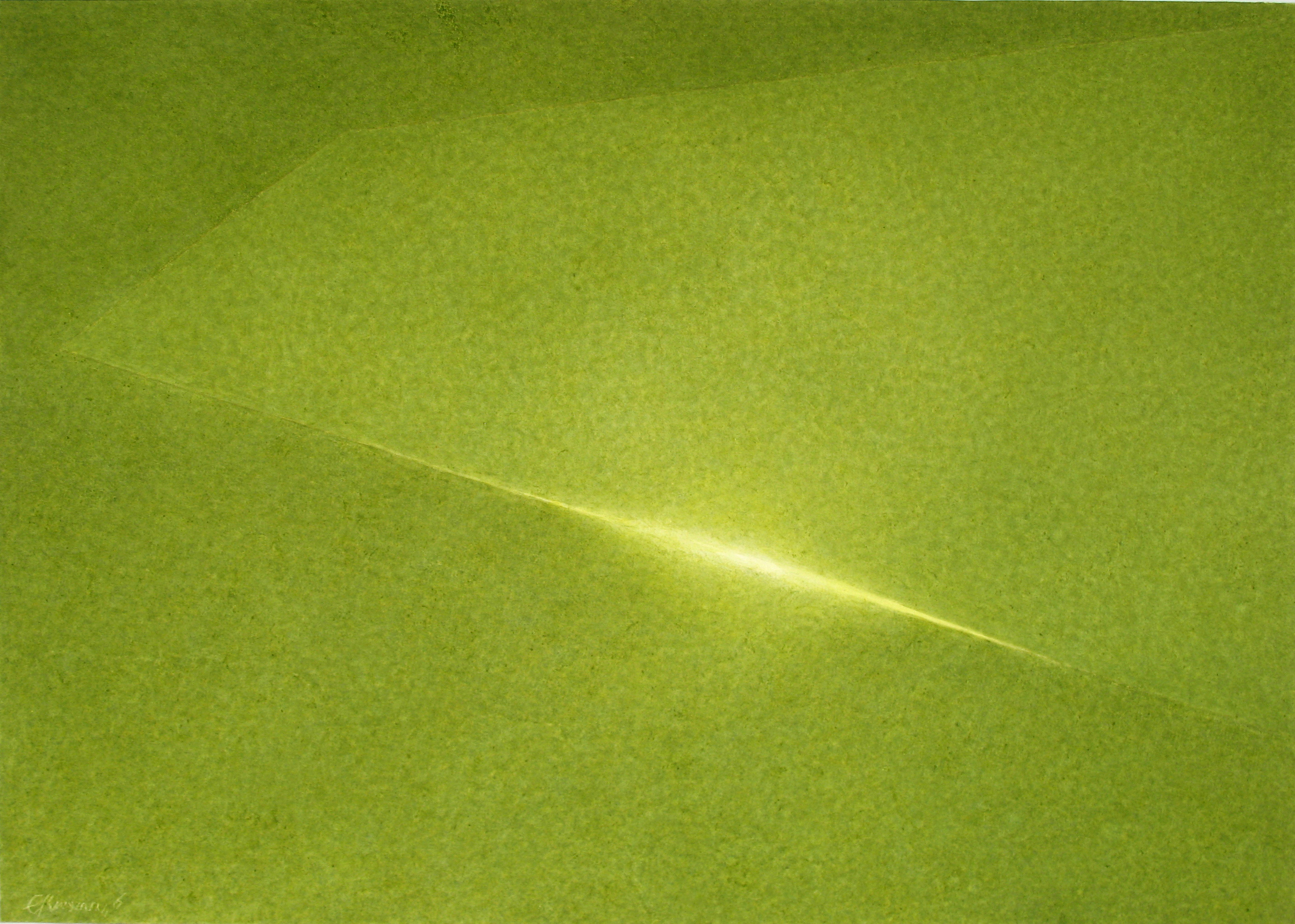 From the "Samsara Niflheim" collection.